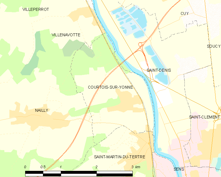 Map of French municipality Courtois-sur-Yonne